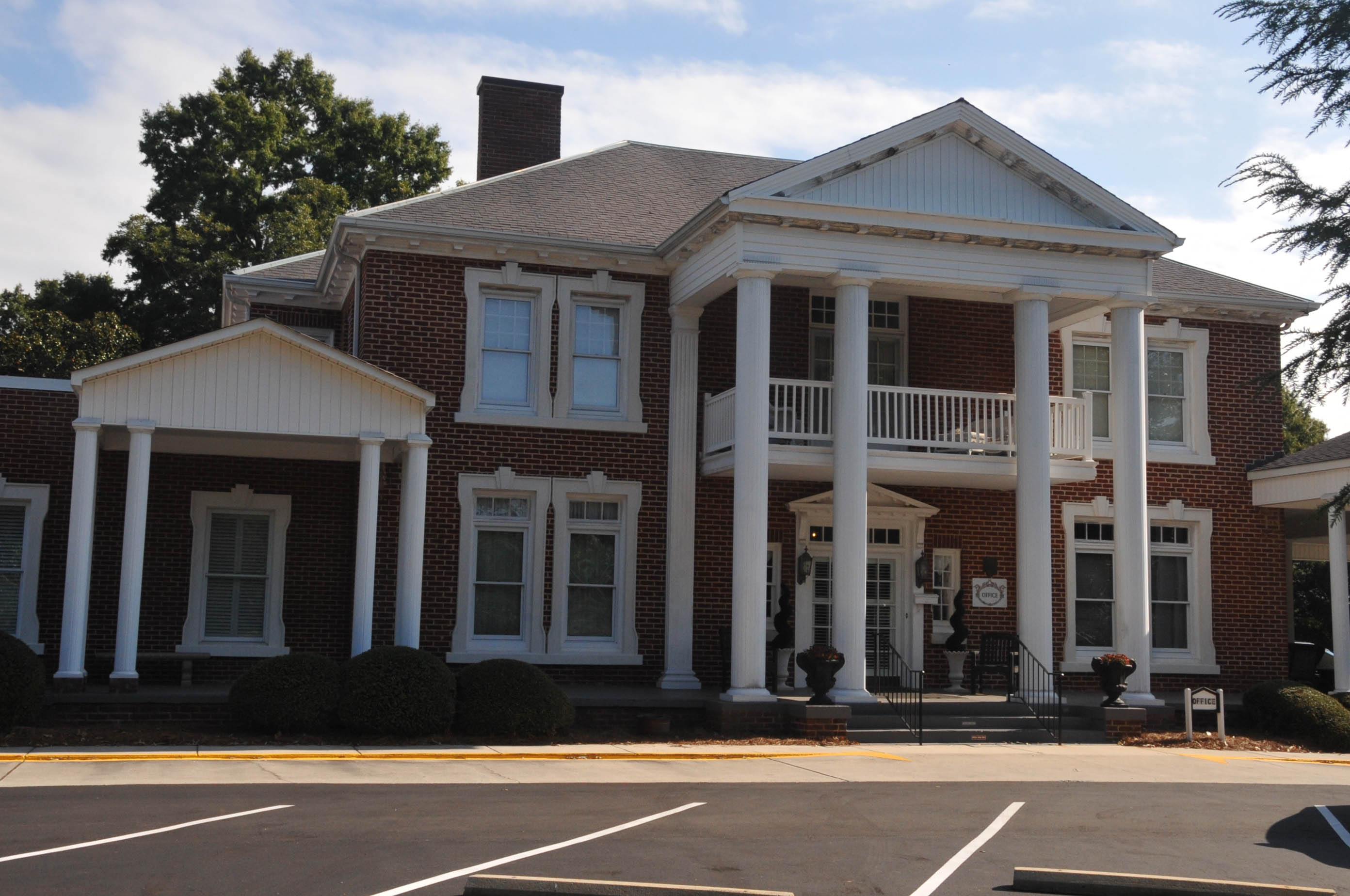 1919 COLONIAL REVIVAL OF MALCOLM LEE WHO WAS THE FOUNDER OF THE FARMERS AND MERCHANTS BANK AND BEARSKIN COTTON MILLS